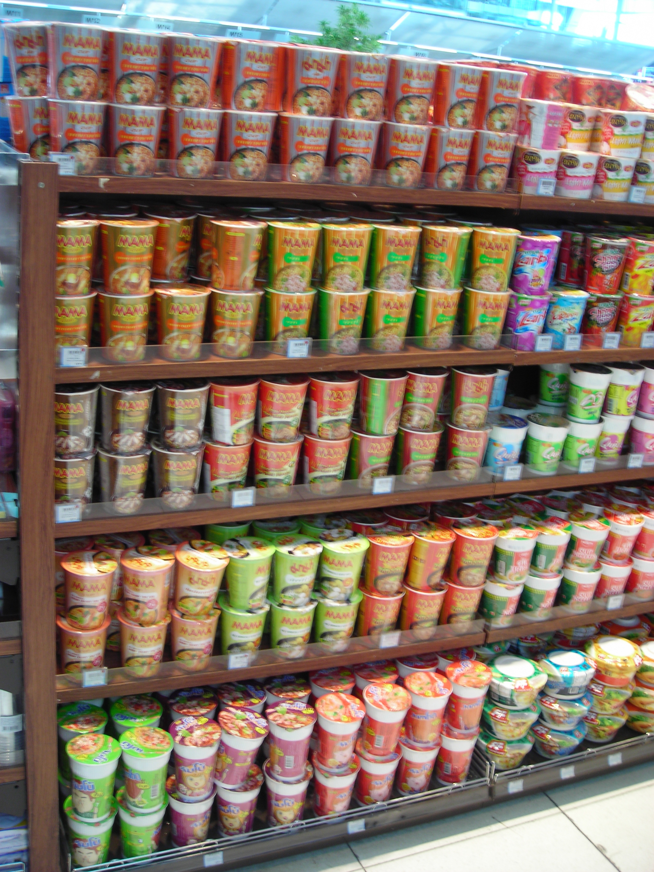 Thai instant noodles for sale at FamilyMart (Suvarnabhumi International Airport, Thailand).